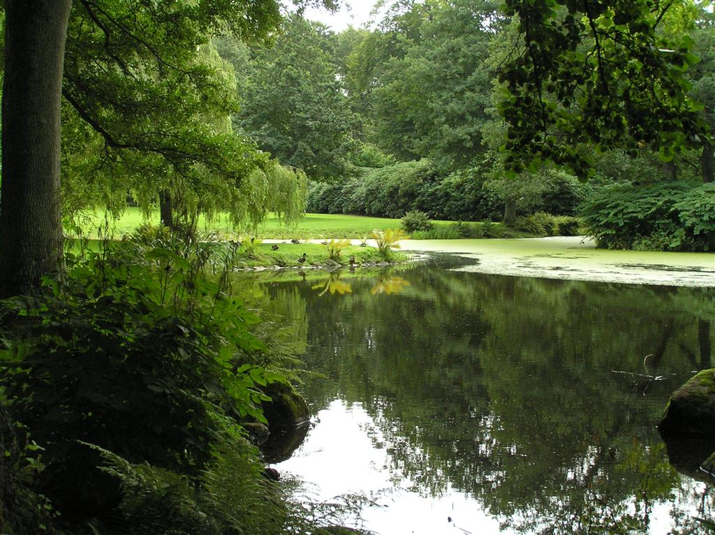 Photo: Bengt Olof ÅRADSSON